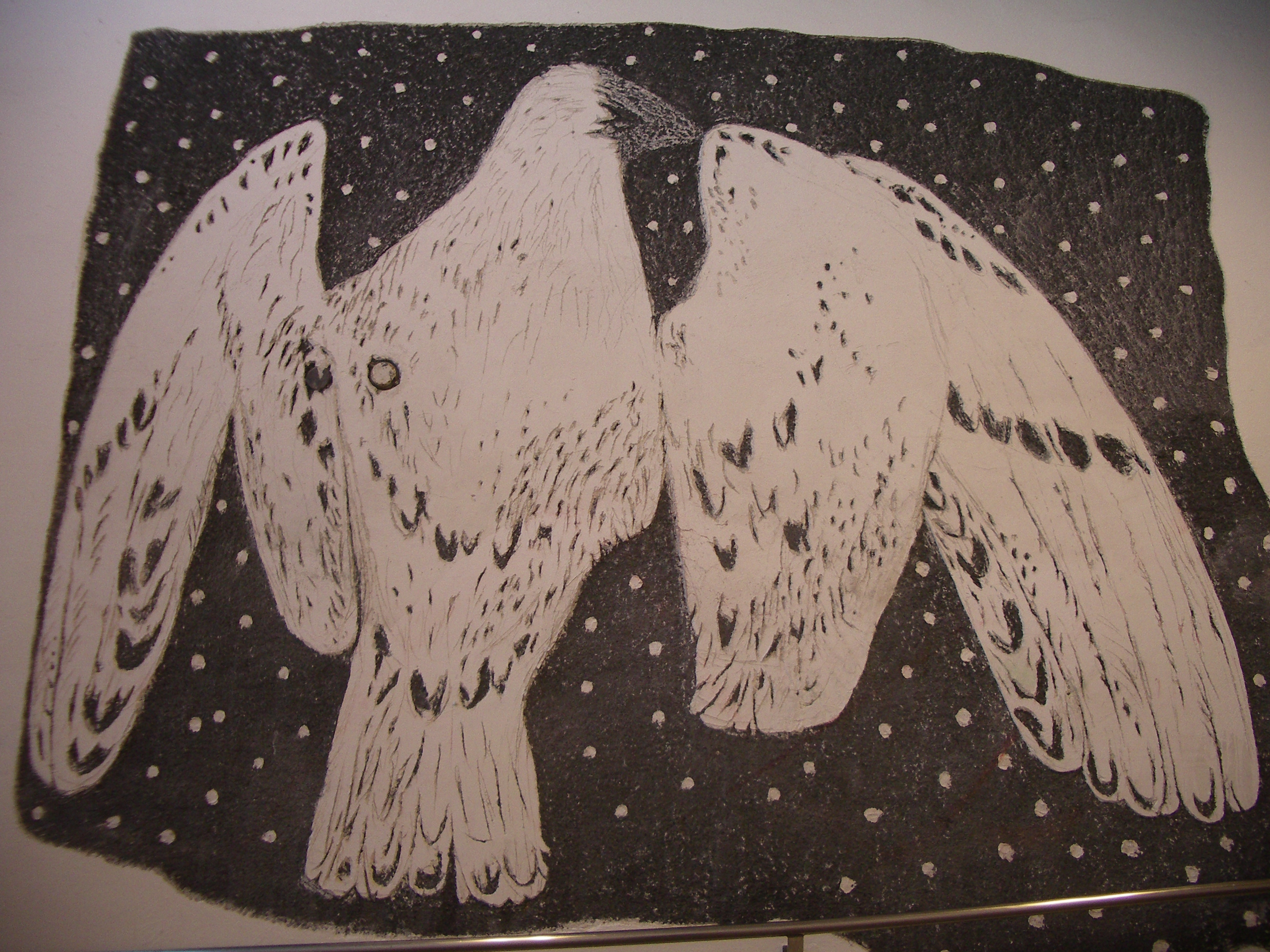 Detail of Jörgen Fogelquist´s wall paintings at the Västertorp Subway Station, Stockholm, With the Eagle towards the North Pole (Med Örnen mot polen (1981)